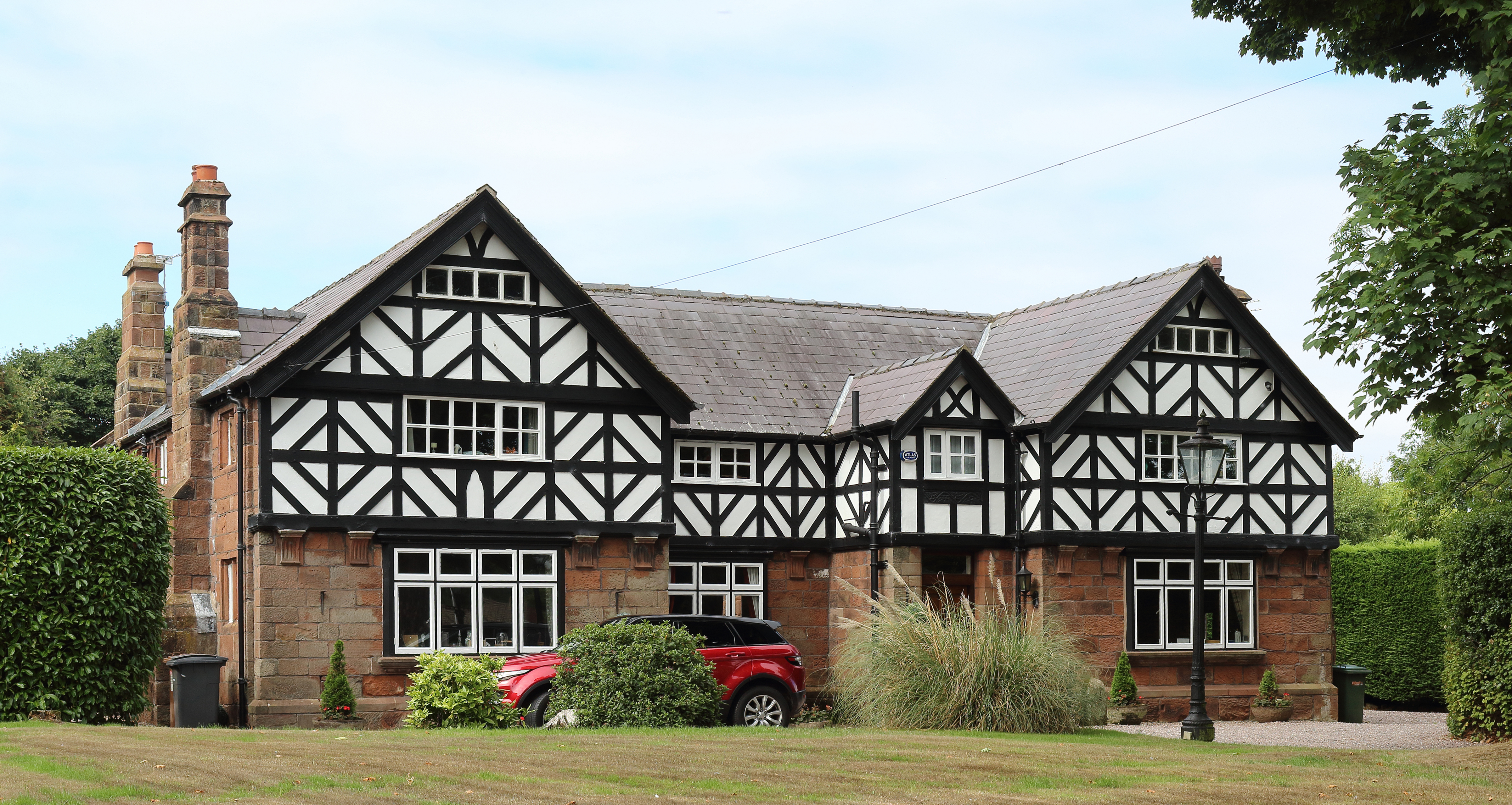 Grade II listed Irby Hall, front view across the lawn.